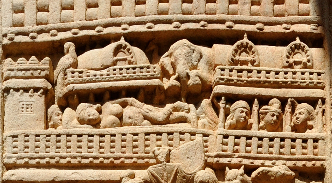 Maya's dream Sanchi Stupa 1 Eastern gateway